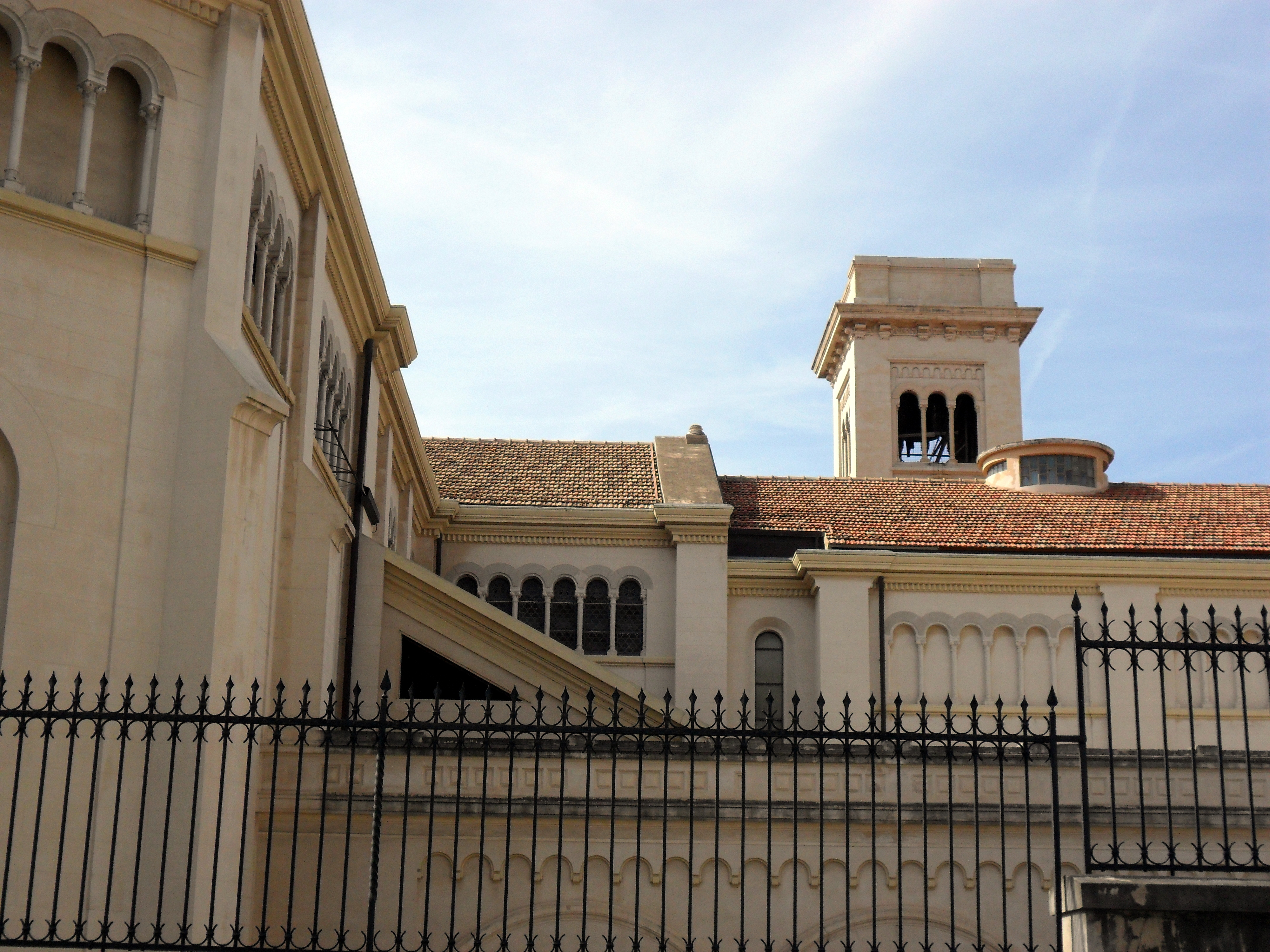 Rear of the Chatheral of city